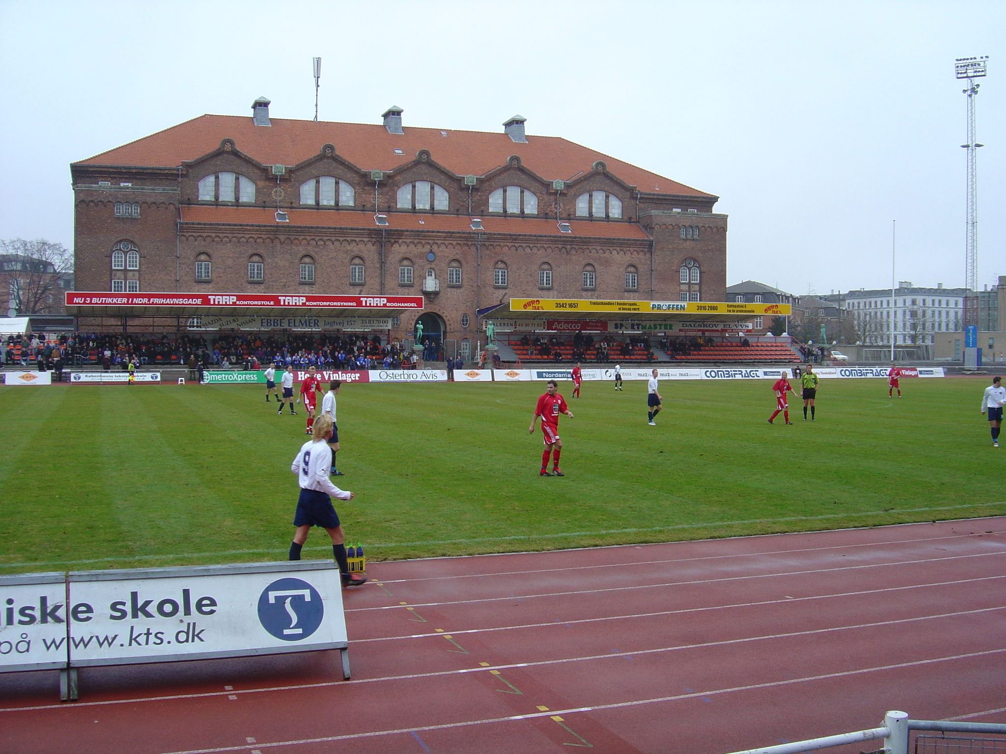 Østerbro Stadium - a Danish combined association football and athletic stadium, showing the secondary stands on the opposite side of the main stand along with Idrætshuset in the background, during a Danish 1st Division match between Boldklubben af 1893 and Boldklubben Fremad Amager on 24 March 2005.